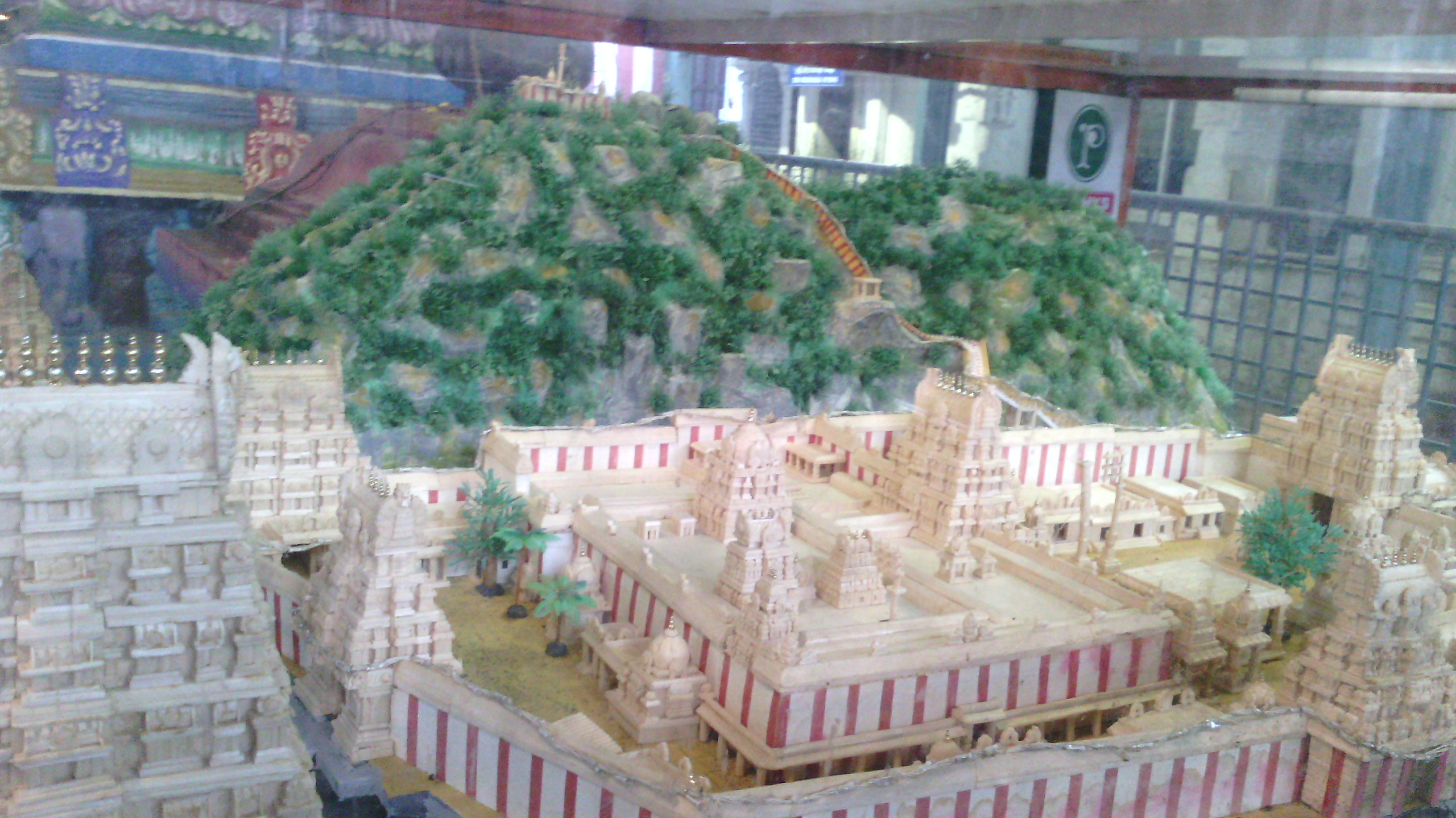 Srikalahasti Temple layout , Srikalahasti, A.P